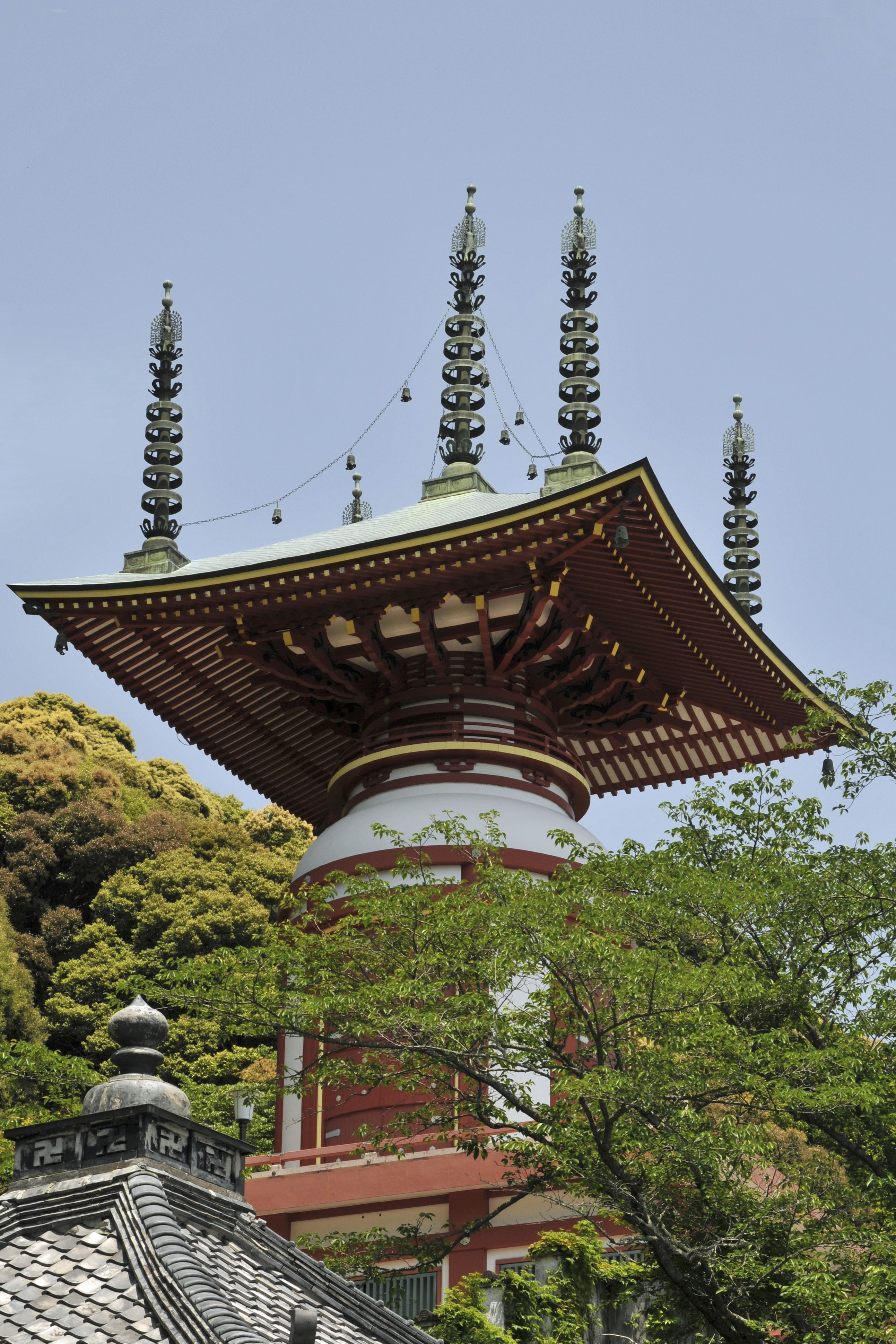 Yugi-tō, Yakuō-ji